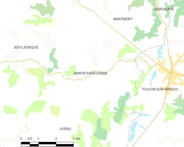 Map of French municipality